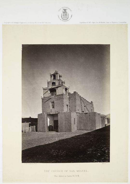 Digital ID: 416632. No. 11. The Church of San Miguel, the oldest in Santa Fe, N. M.. O'Sullivan, Timothy H. -- Photographer. 1871-1873 Source: Photographs showing landscapes, geological and other features of portions of the western territory of the United States, obtained in connection with geographical and geological explorations and surveys west of the 100th meridian,...1871, 1872 and 1873. / T.H. O'Sullivan and W. Bell. ( Repository: The New York Public Library. Photography Collection, Miriam and Ira D. Wallach Division of Art, Prints and Photographs. See more information about and others at Persistent URL: Rights Info: No known copyright restrictions; may be subject to third party rights (for more information